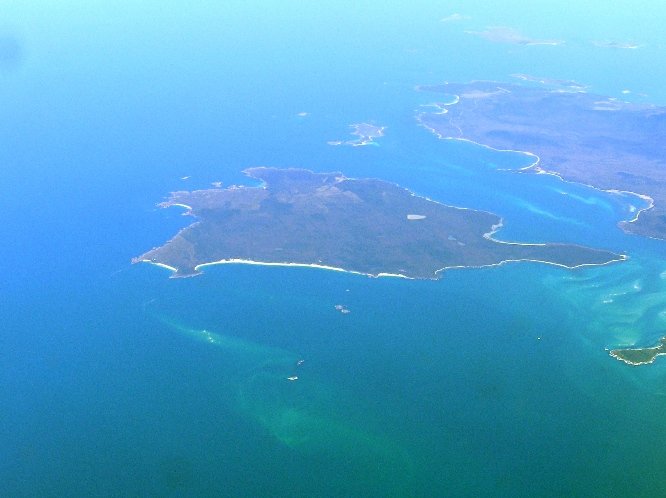 Aerial view of Clarke Island Tasmania from south east, Preservation Island above, and Cape Barren Island to the right.